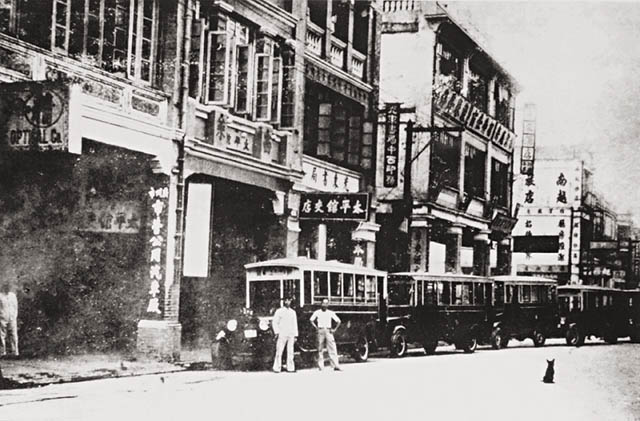 The Tai Ping Koon Restaurant in Wing Hon Road, Canton, China.